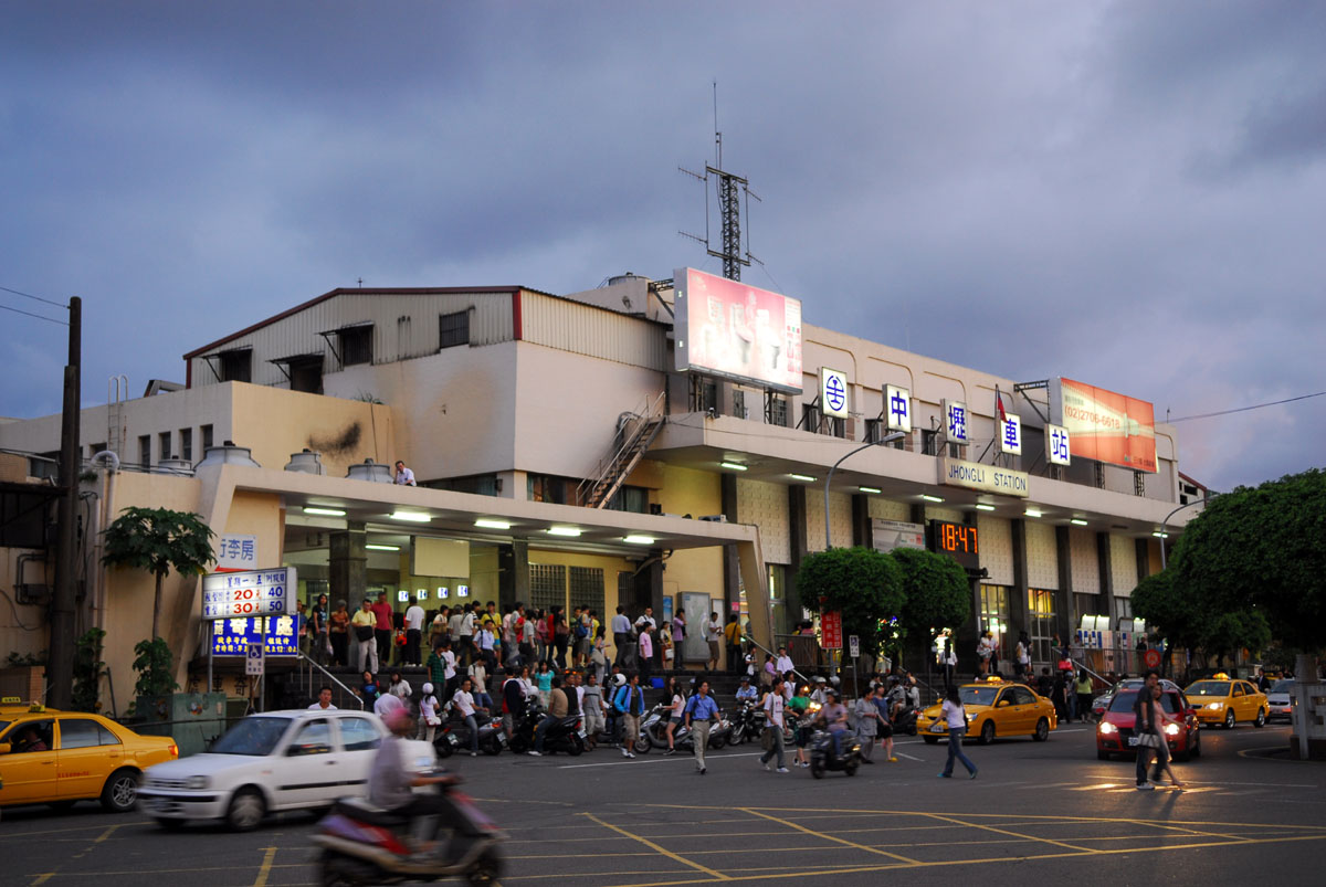 Jhongli Station is major train station of Taiwan's Western Main Line. This station is the central station of Chungli(Jhongli) City.